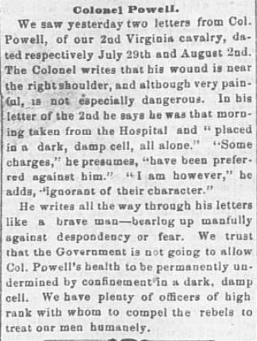 This is a short newspaper article (Wheeling Daily Intelligencer) about Colonel William H. Powell of the 2nd West Virginia Cavalry (a.k.a. 2nd Loyal Virginia Cavalry). The article is from the northern point of view, and portrays Powell positively.